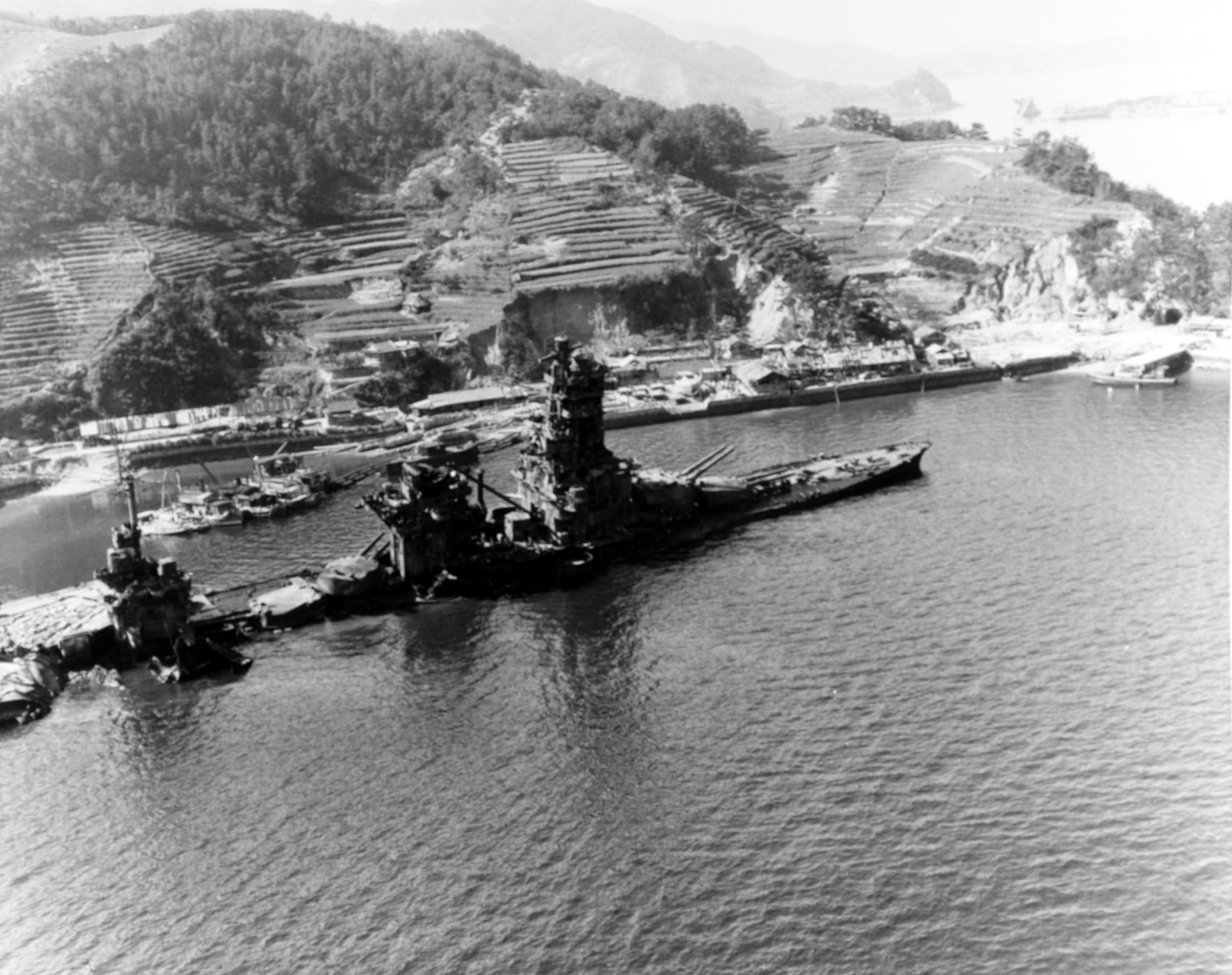 Wreck of the Japanese battleship Ise, in October 1945.